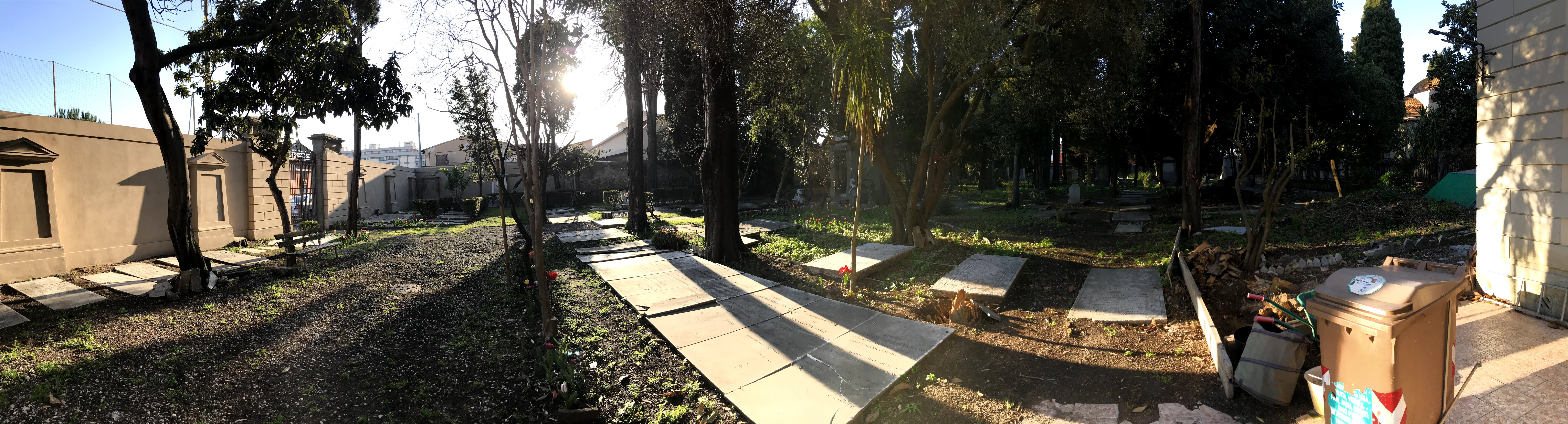 A view of the entrance after some restoration works and cleaning